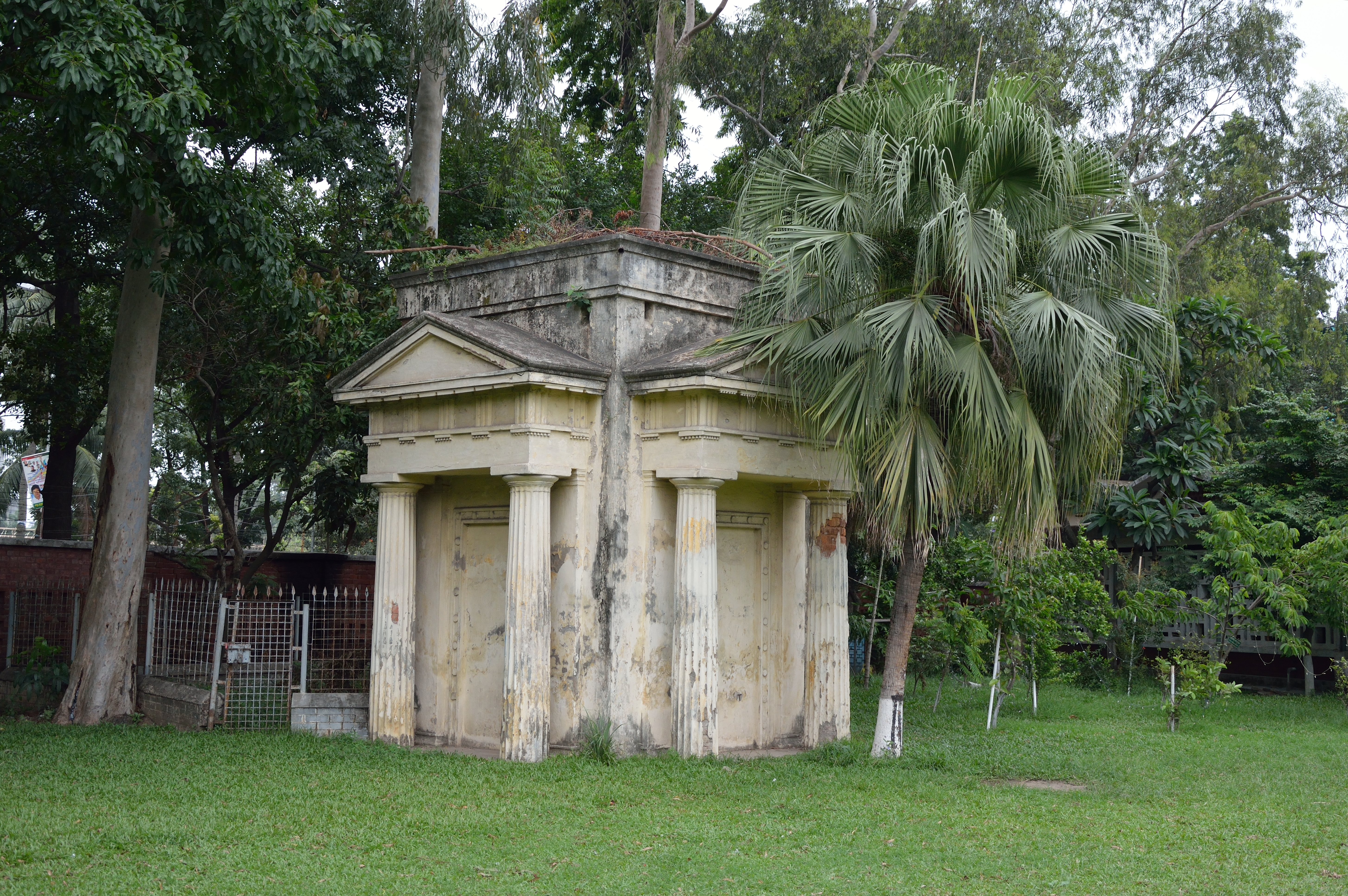 Photographed in Dhaka, Bangladesh.